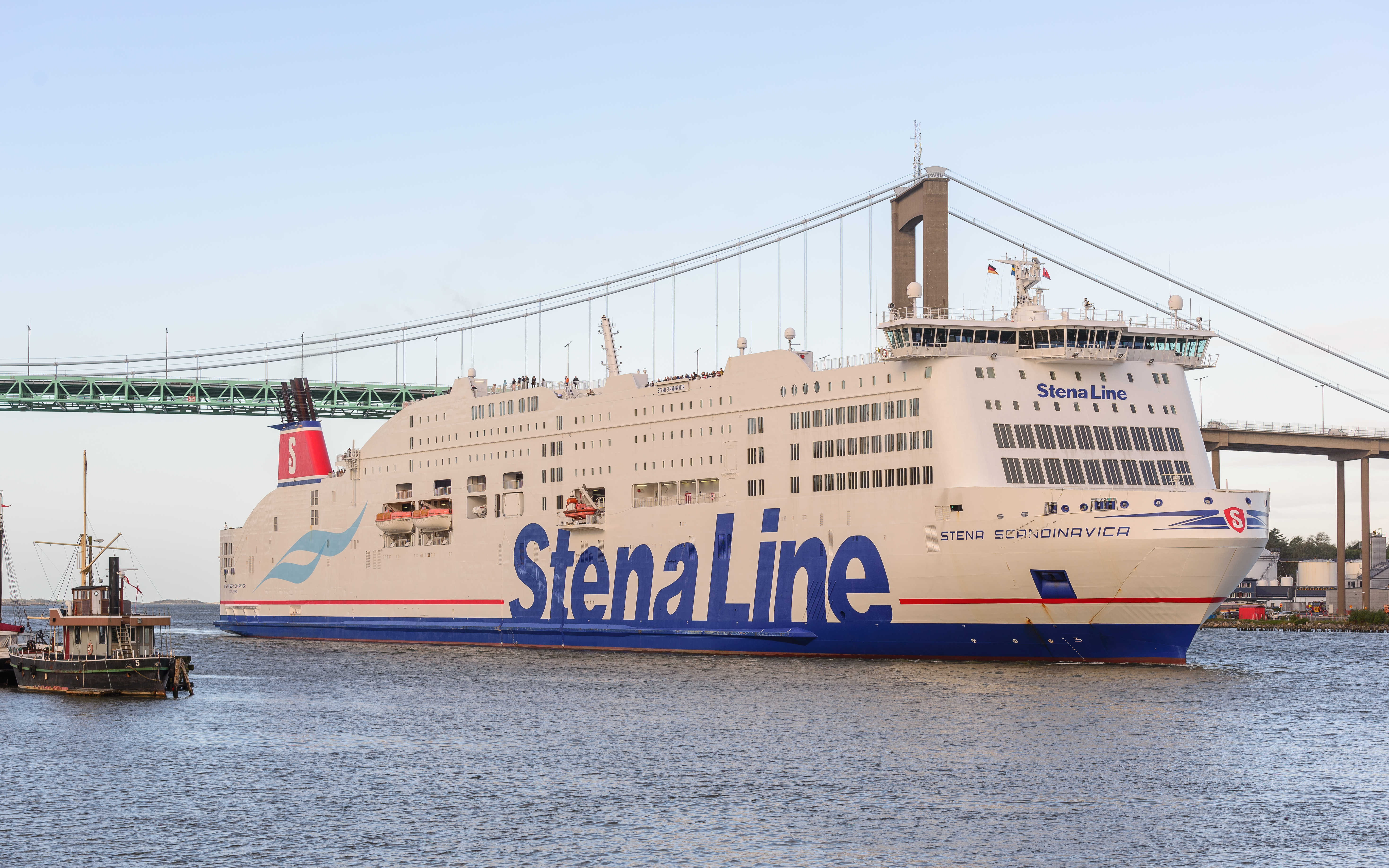 Stena Scandinavica entering Gothenburg. In the background, Älvsborg bridge.